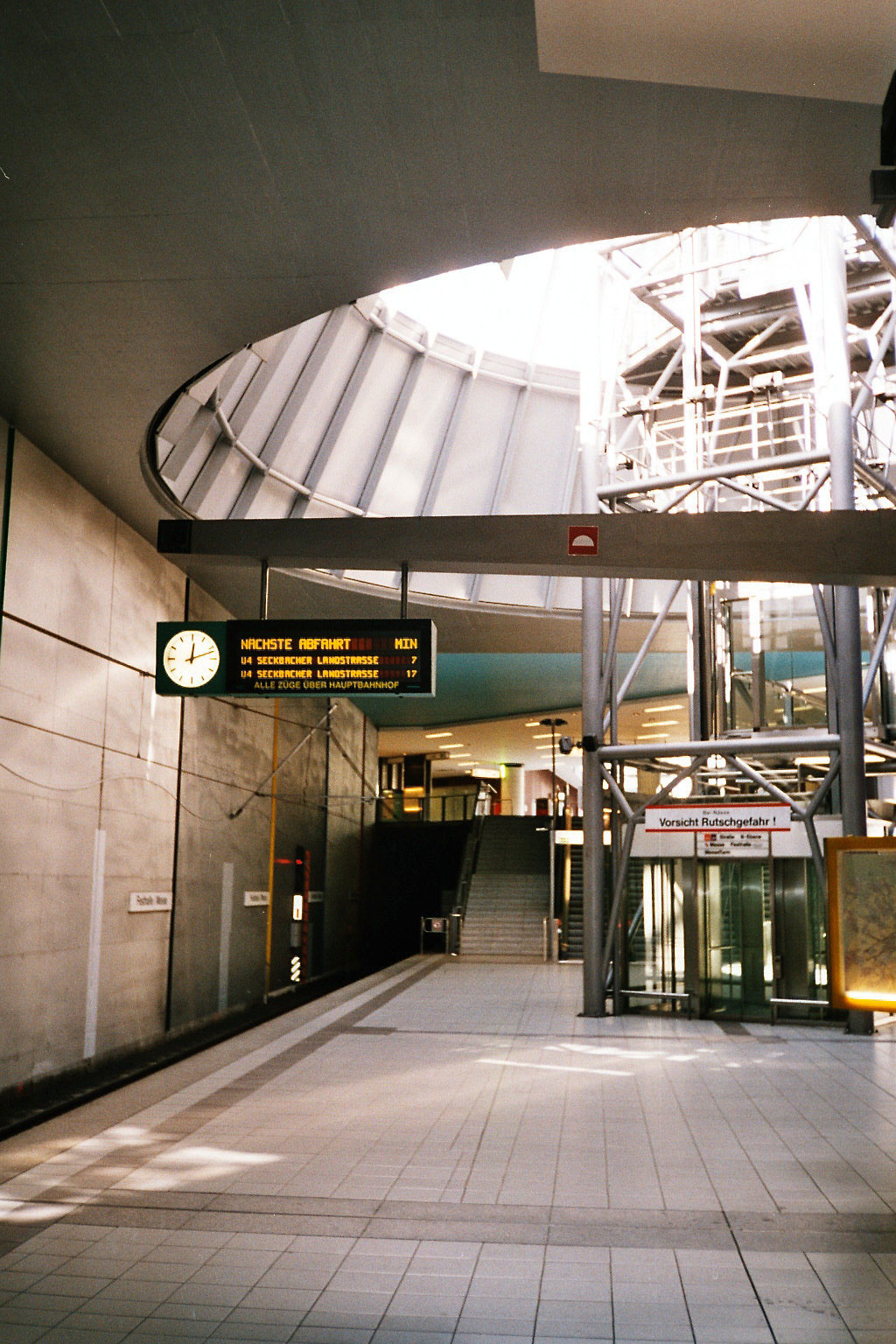 U-Bahn-station Festhalle/Messe in Frankfurt am Main, Germany